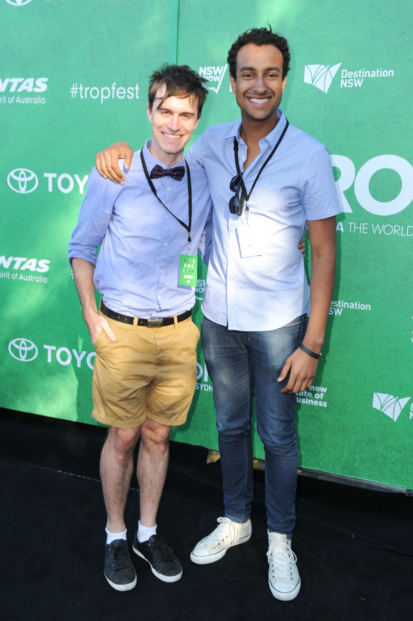 Alex Dyson (left) and Matt Okine (right) at Tropfest Australia in Centennial Park, Sydney on 8 December, 2013.